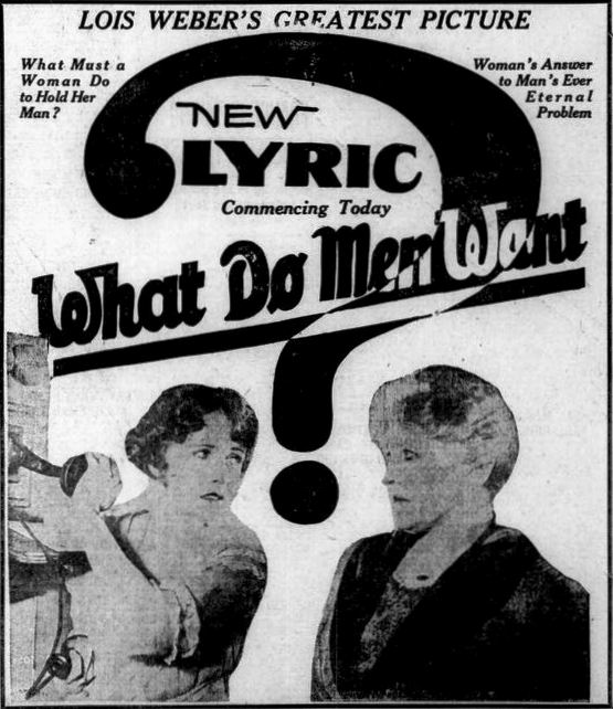 Newspaper advertisement for the American drama film What Do Men Want? (1921) with Claire Windsor and an unidentified actress, on page 2 of the January 28, 1922 Duluth Herald.